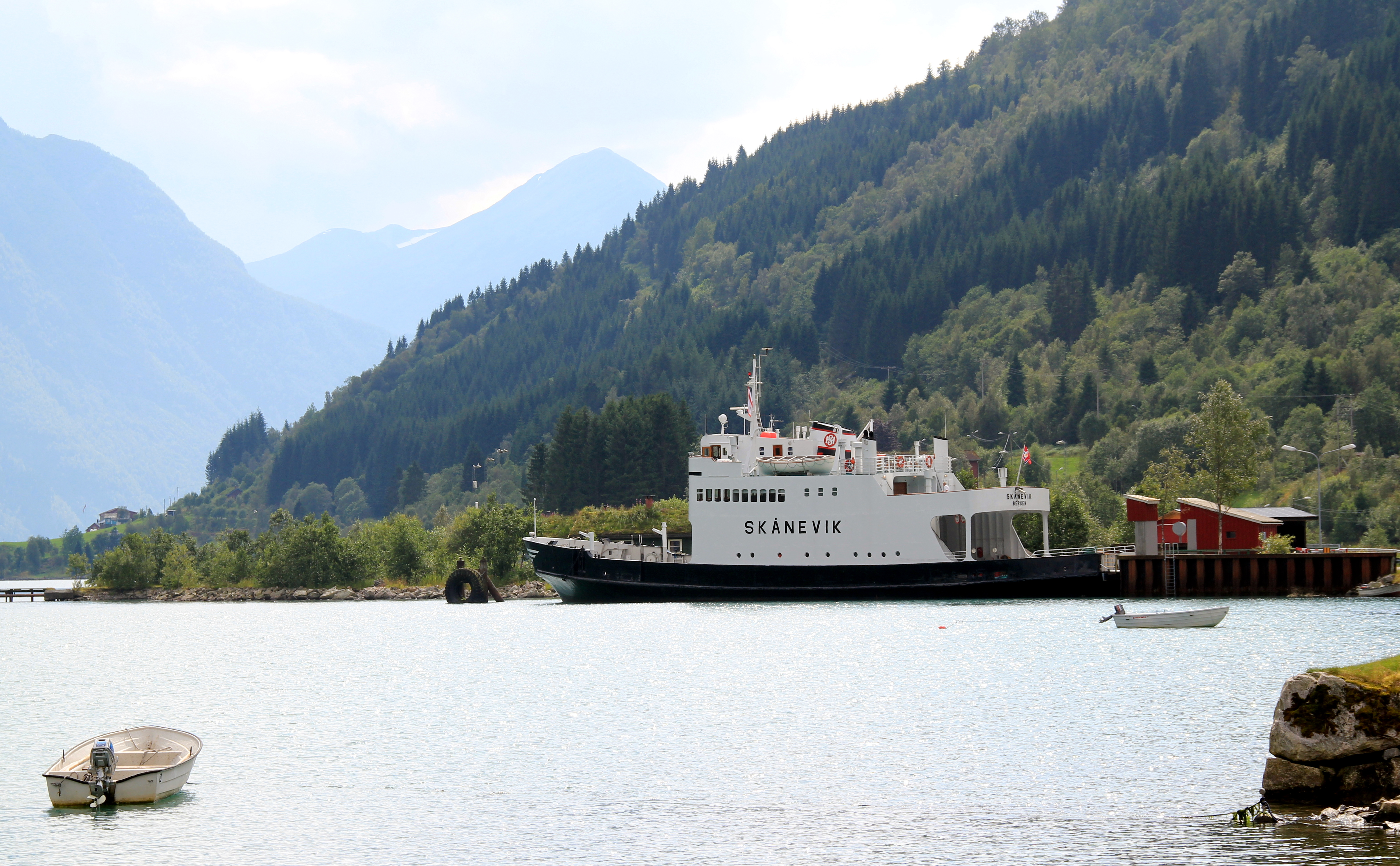 Boatferry MS Skånevik at ferryslip in Fjærland